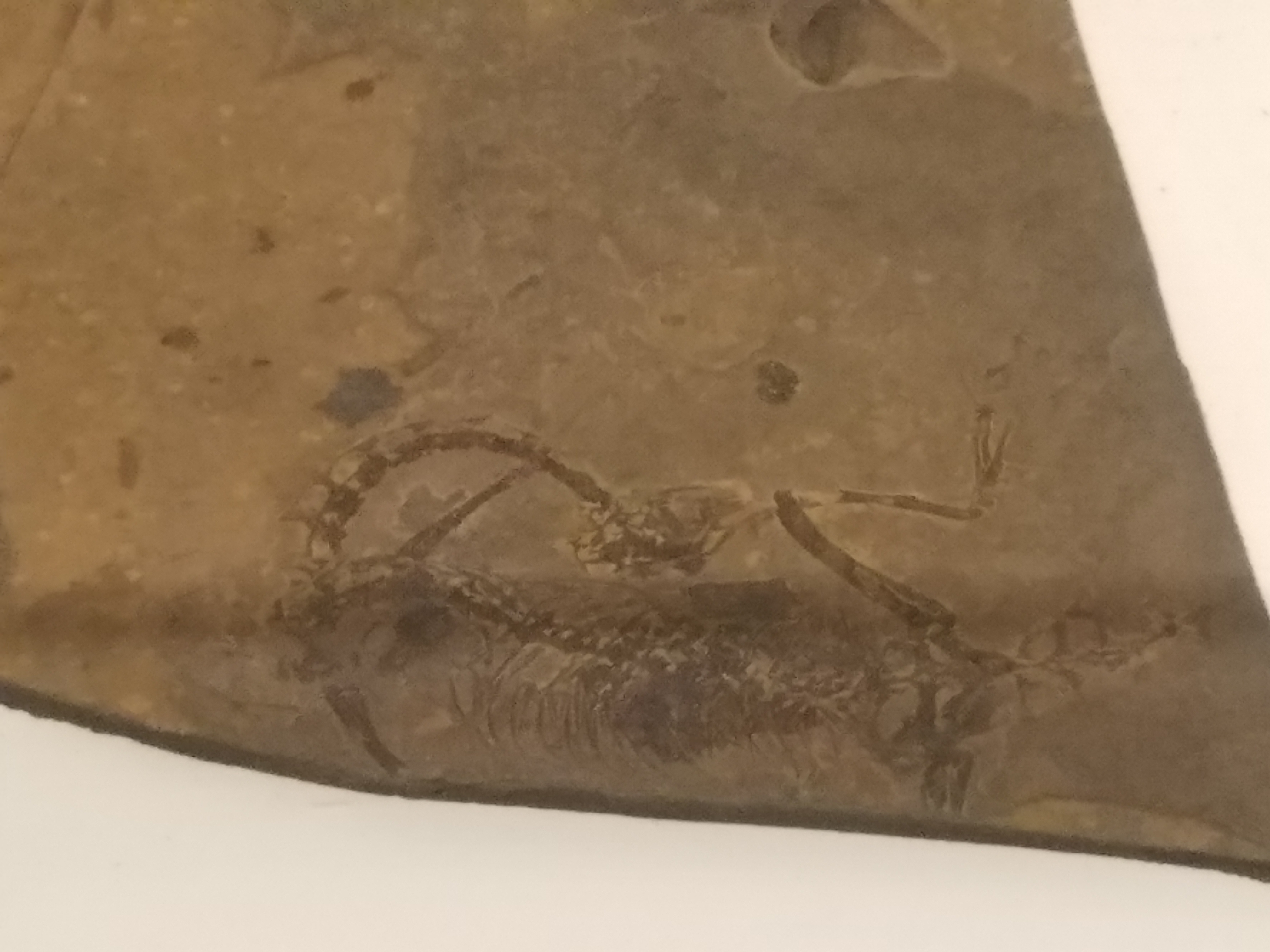 A skeleton of a Tanytrachelos ahynis. Photo taken at the Virginia Museum of Natural History.